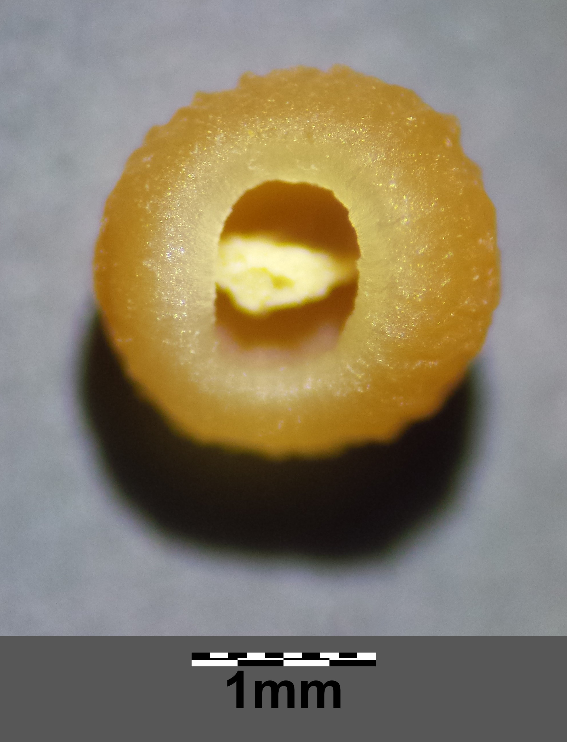 Seed Taxonym: Veronica sublobata ss Fischer et al. EfÖLS 2008 ISBN 978-3-85474-187-9 Location: near Niederhollabrunn, district Korneuburg, Lower Austria - ca. 350 m a.s.l. (leg.: 2016-05-15) Habitat: wine yard / border of a shrubbery